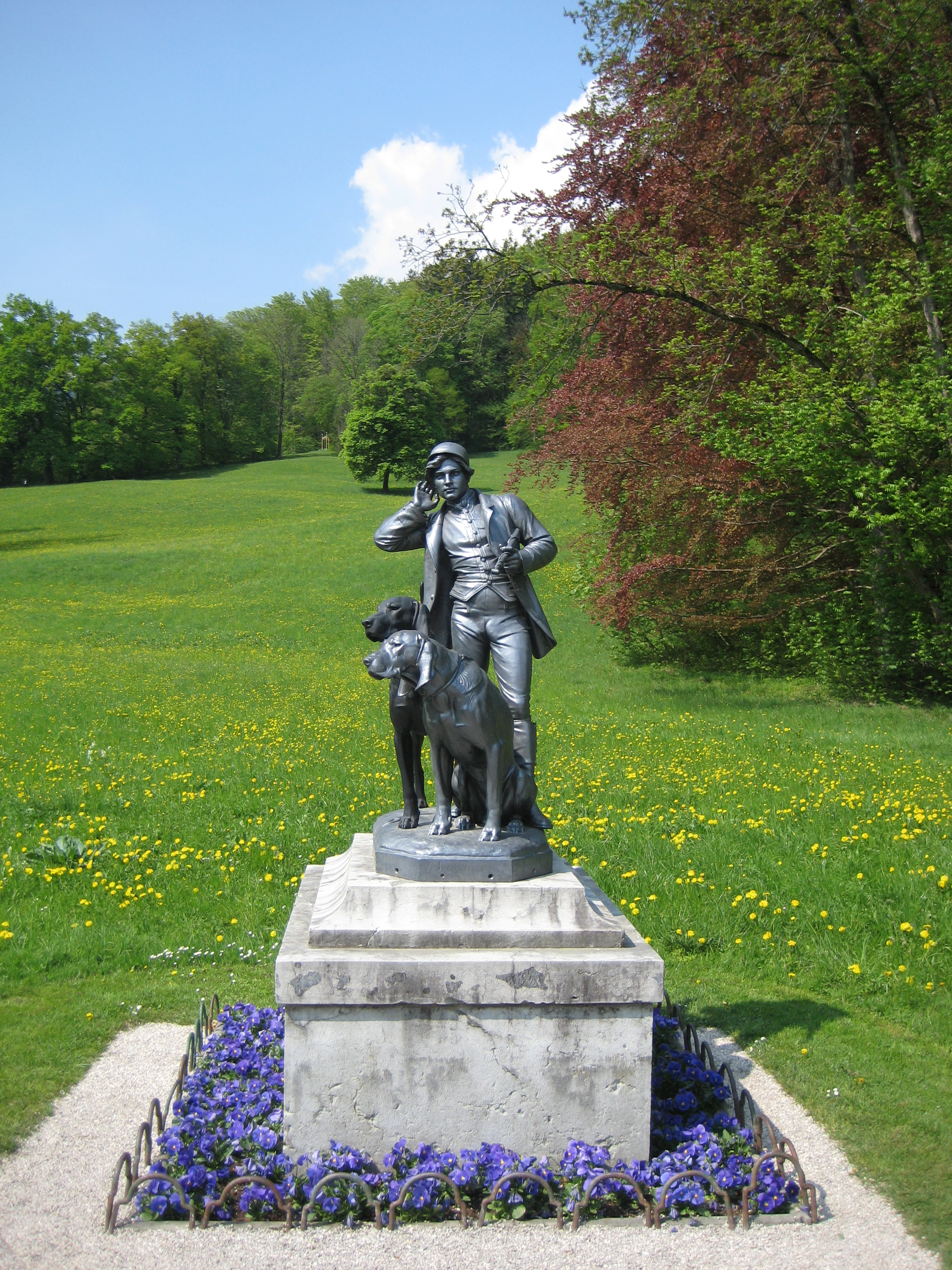 Bad Ischl, Kaiservilla